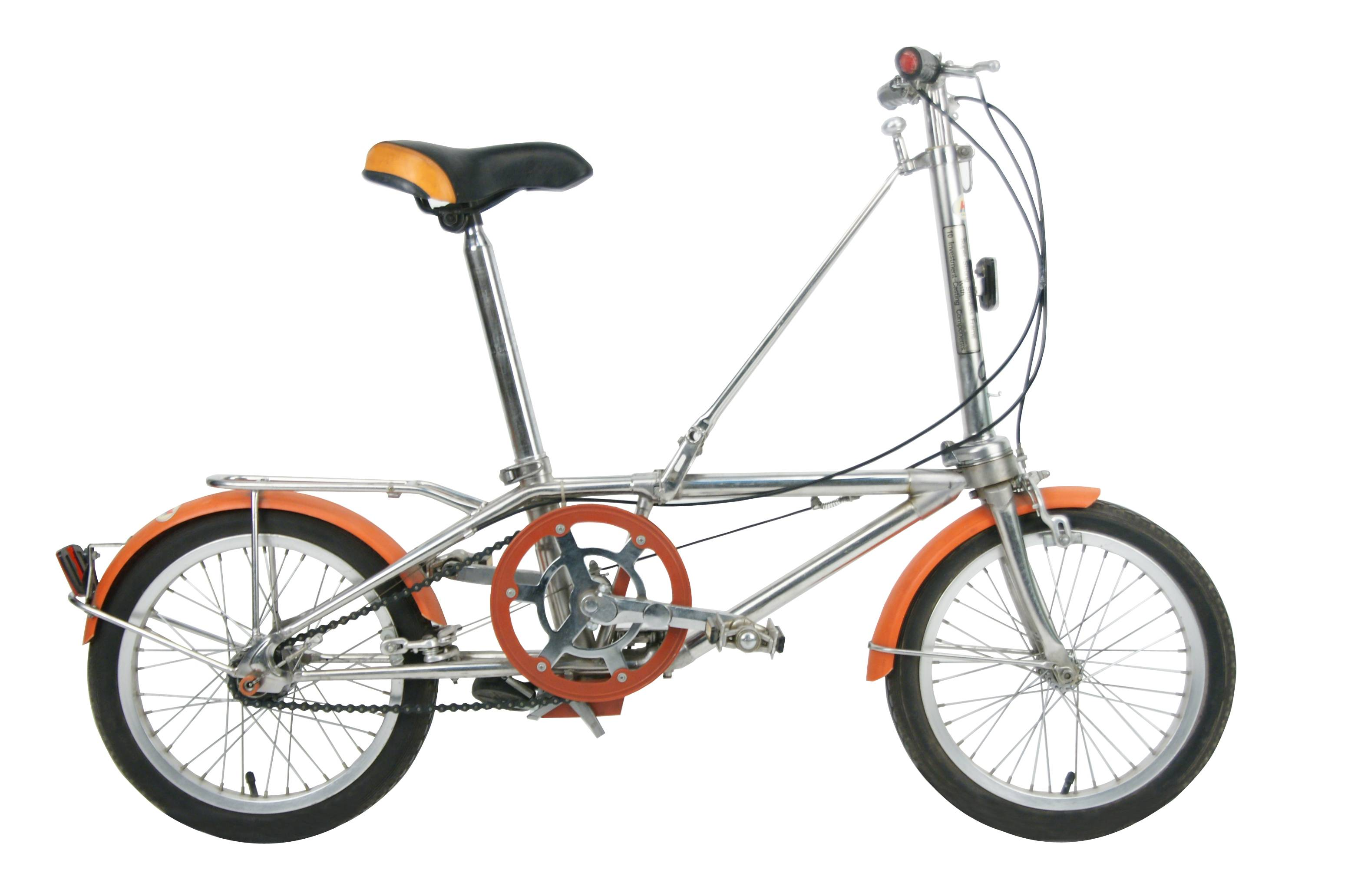 Stainless steel 1982 Hon Convertible by Dahon